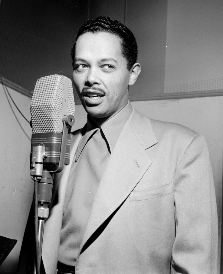 Gottlieb, William P., 1917-, photographer. [Portrait of Billy Eckstine, New York, N.Y., between 1946 and 1948] 1 negative : b&w ; 2 1/4 x 2 1/4 in. Notes: Gottlieb Collection Assignment No. 118 Reference print available in Music Division, Library of Congress. Purchase William P. Gottlieb Forms part of: William P. Gottlieb Collection (Library of Congress). Subjects: Eckstine, Billy Jazz musicians--1940-1950. Jazz singers--1940-1950. Format: Portrait photographs--1940-1950. Film negatives--1940-1950. Rights Info: Mr. Gottlieb has dedicated these works to the public domain, but rights of privacy and publicity may apply. Repository: (negative) Library of Congress, Prints & Photographs Division, Washington D.C. 20540 USA, (reference print) Library of Congress, Music Division, Washington D.C. 20540 USA, Part Of: William P. Gottlieb Collection (DLC) 99-401005 General information about the Gottlieb Collection is available at Persistent URL: Call Number: LC-GLB23- 0220